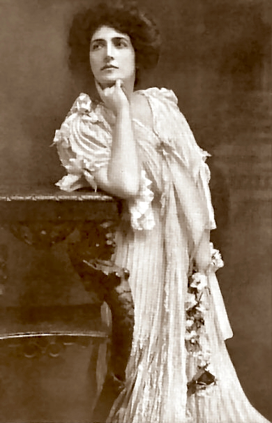 Actress/Playwright Clara Lipman